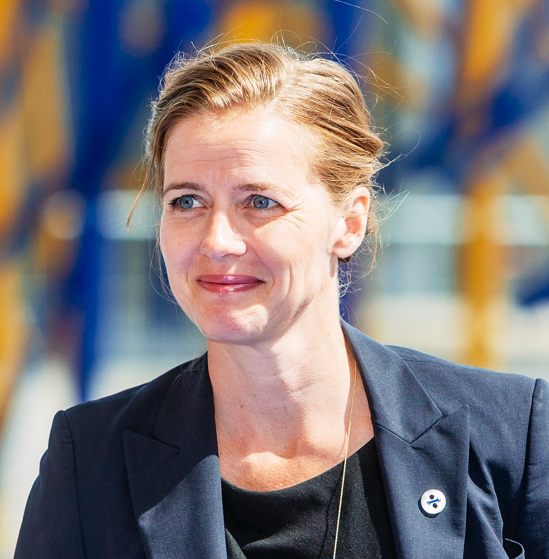 Ellen Trane Nørby in 2017